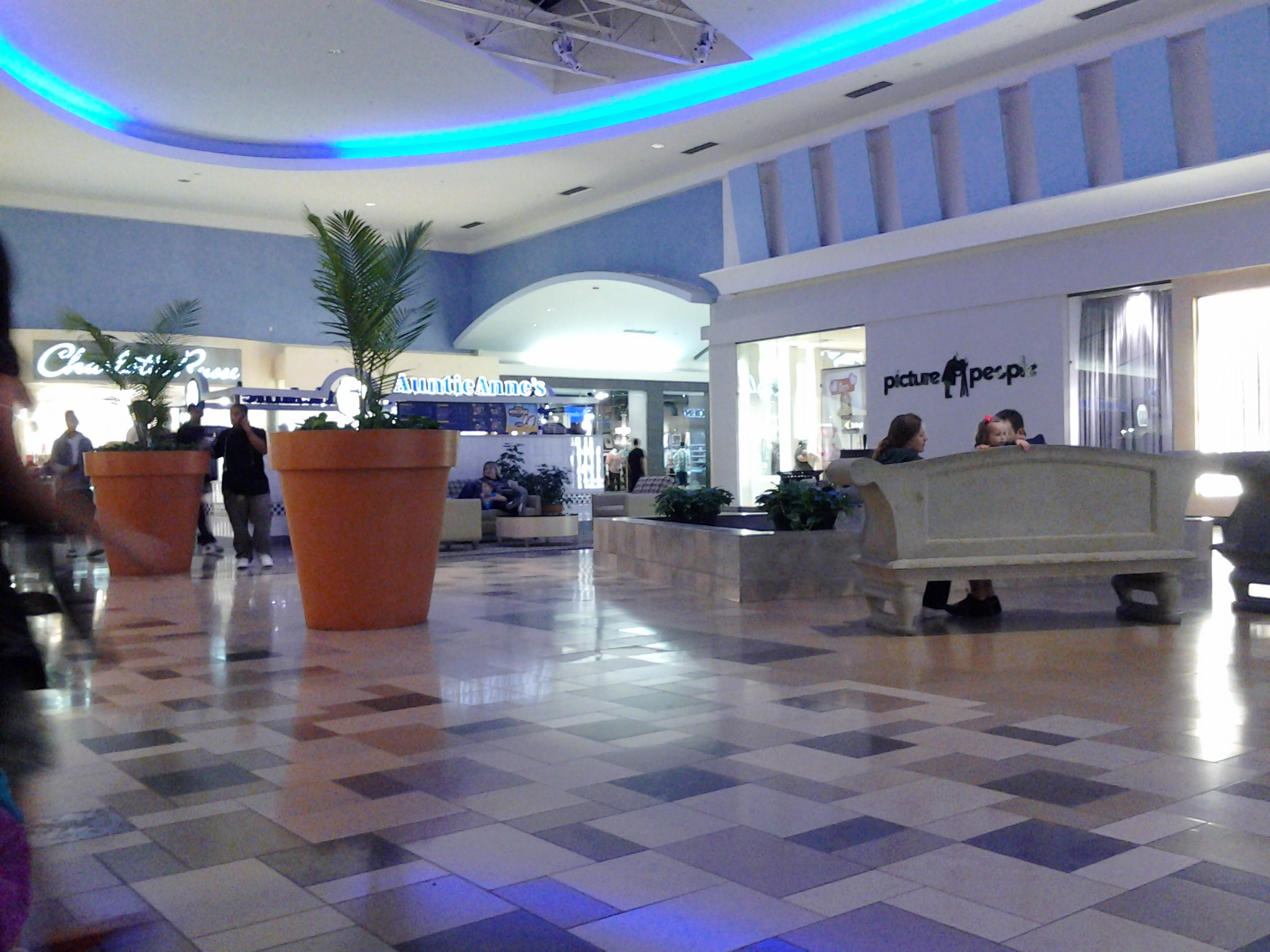 It features a blue skyline which is featured throughout the parts of the mall.